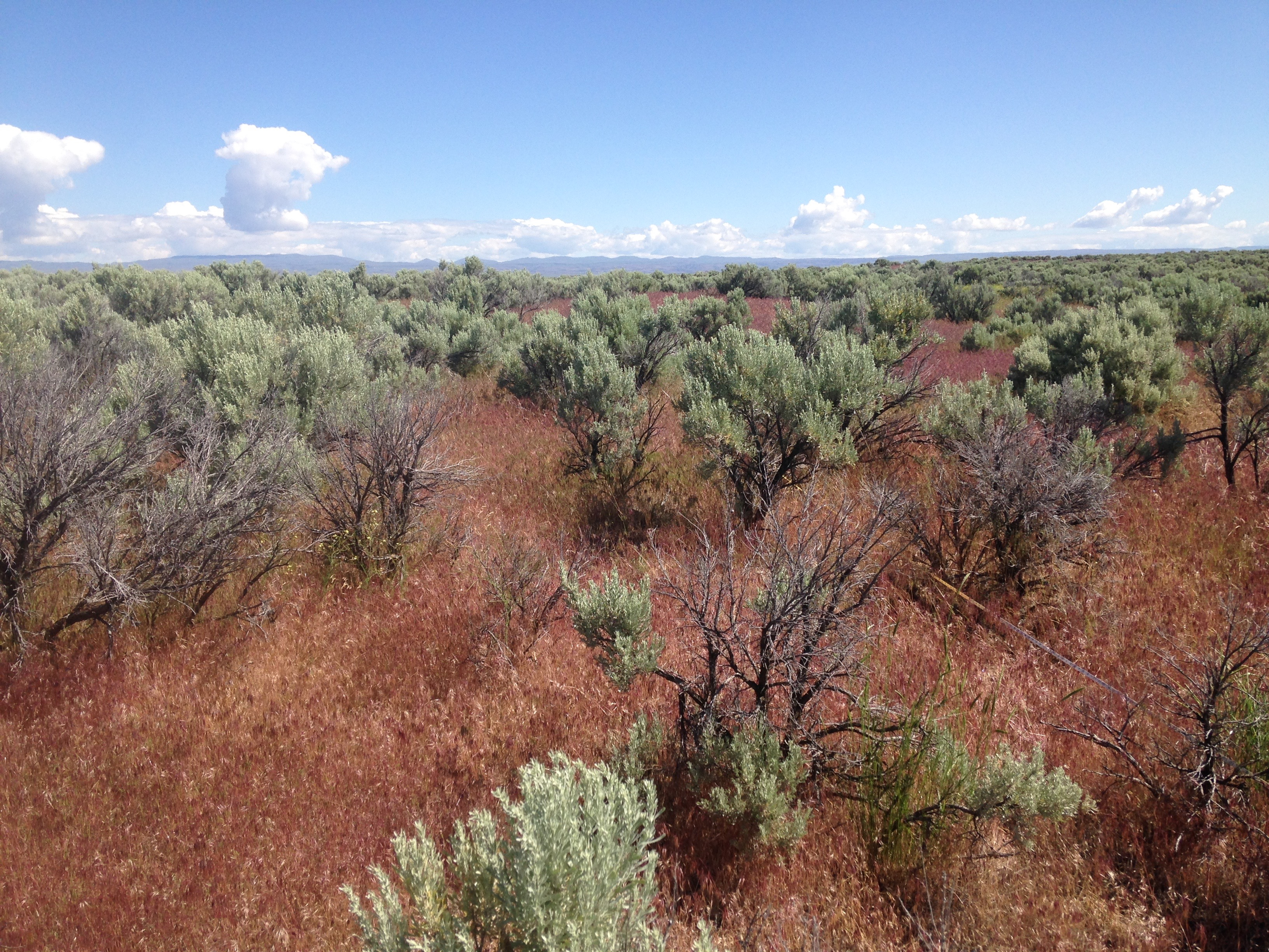 A sagebrush ecosystem in southern Idaho after Bromus tectorum has established